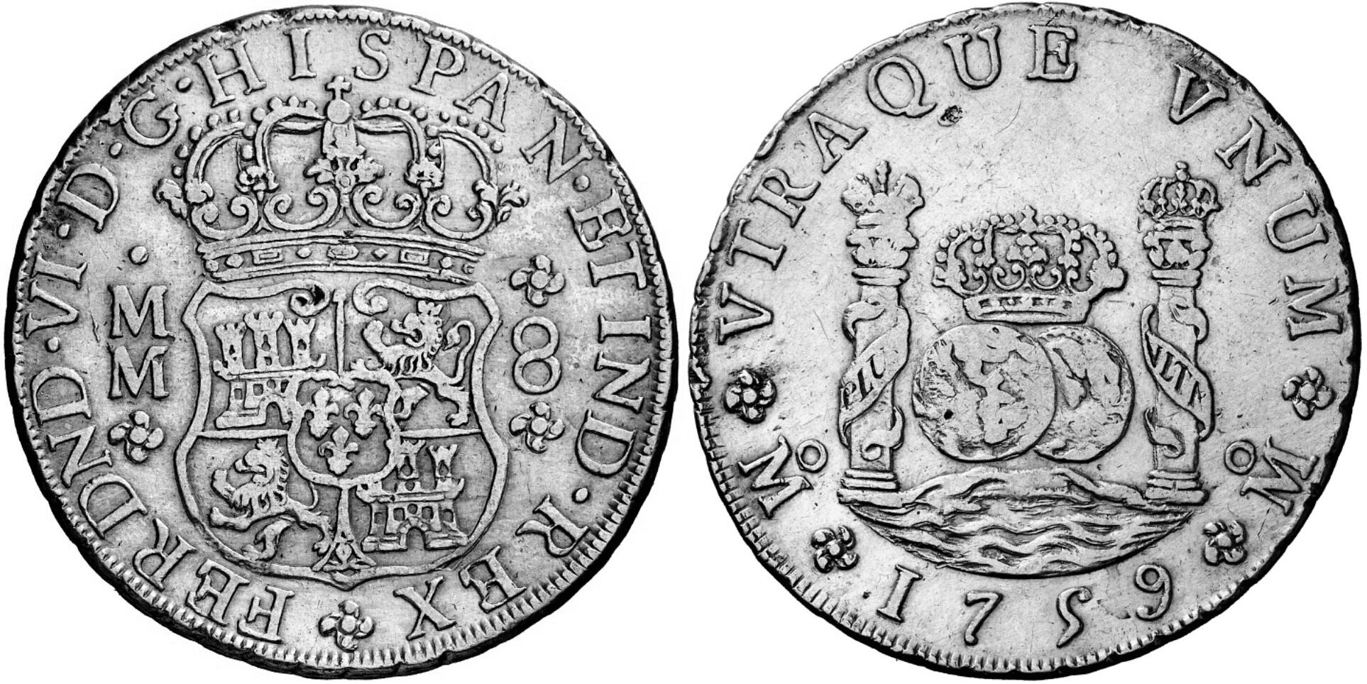 Eight reales spanish silver pillar dollar coin, minted in Mexico under Fernando VI's reign.